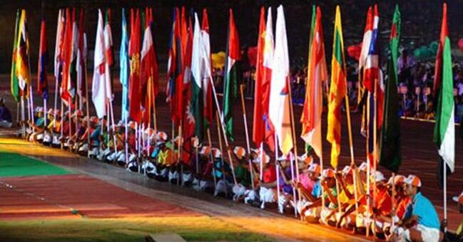 pic